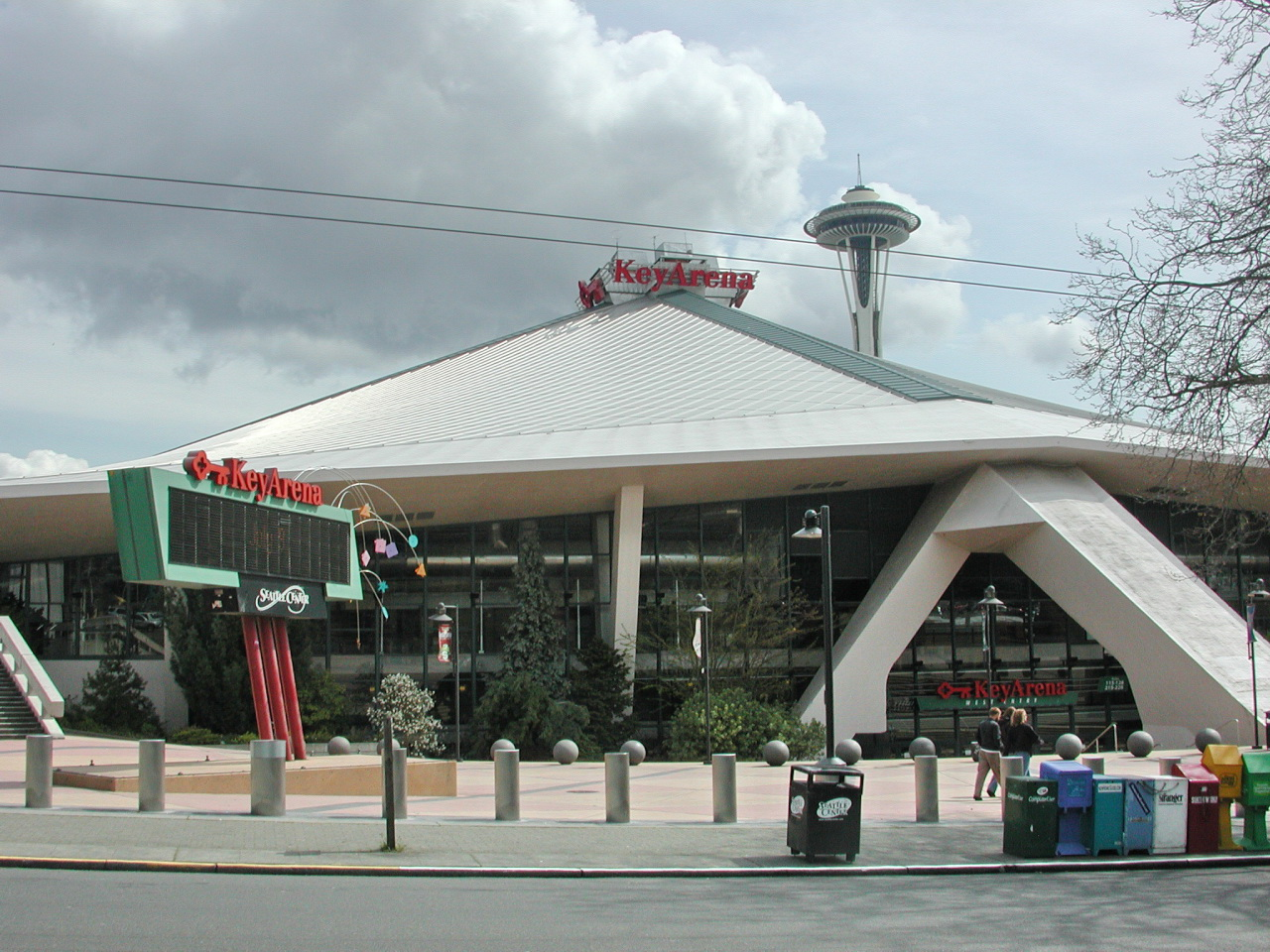 KeyArena at Seattle Center is located north of downtown Seattle, USA on the grounds of Seattle Center (the site of 1962's Century 21 Exposition, a World's Fair). The arena's primary tenants were formerly the Seattle SuperSonics of the National Basketball Association who relocated and became the Oklahoma City Thunder in 2008. In addition to being the former home of the Sonics, it is also home to the Seattle Storm of the Women's National Basketball Association and the Seattle Thunderbirds, a junior hockey team in the Western Hockey League.